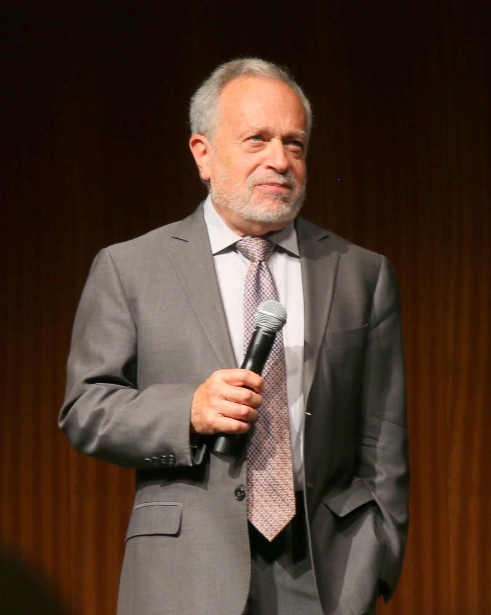 Robert Reich at the University of Texas Plan II Honors Program Liz Carpenter Lecture 2015 on September 8, 2015.